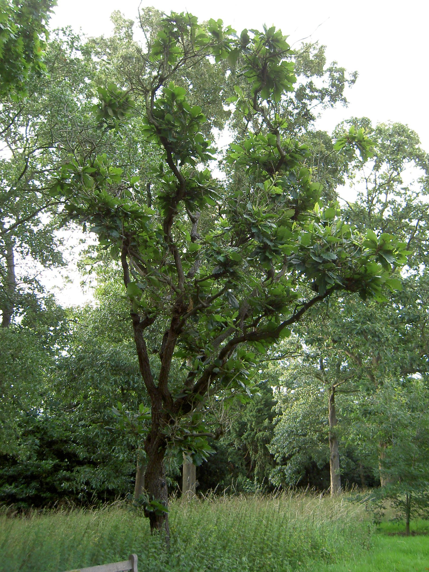 Quercus dentata Kew Gardens 8th July 2007